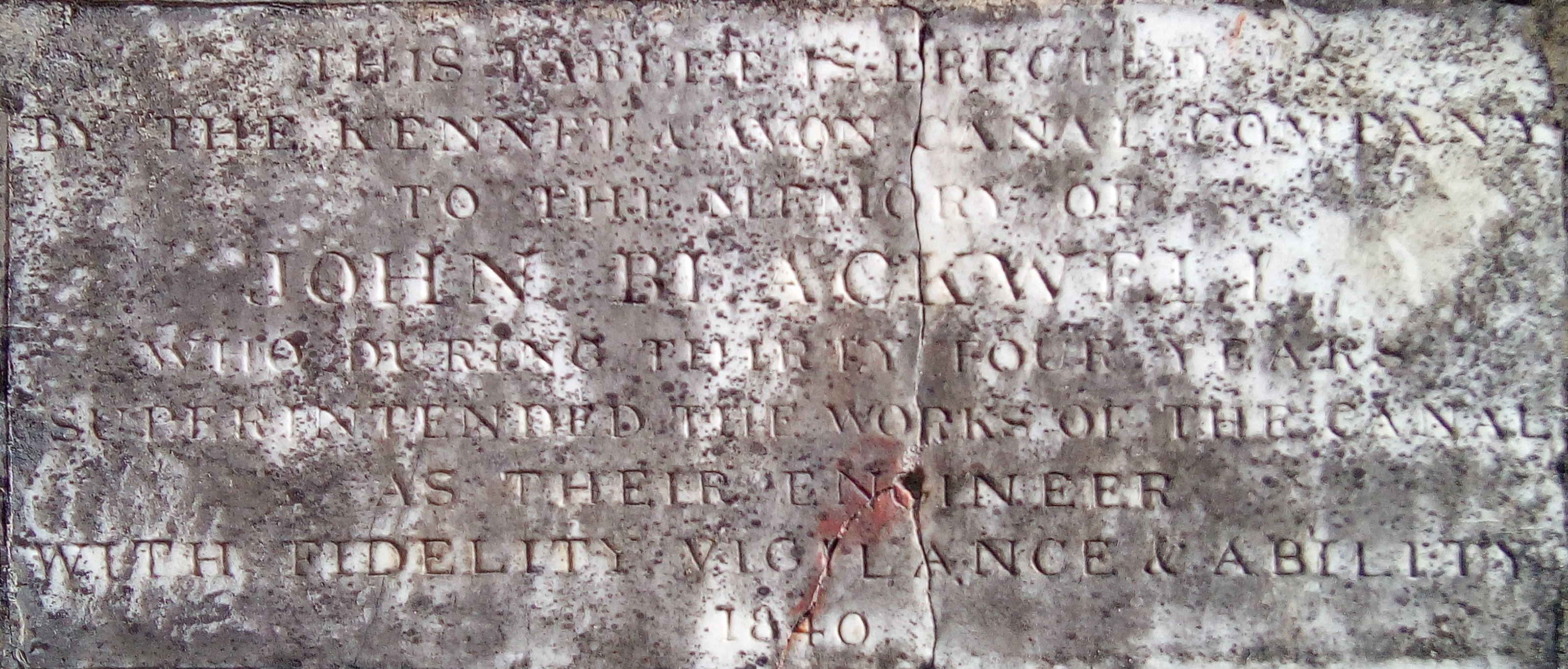 Stone plaque dedicated to canal engineer John Blackwell. The plaque is set into a bridge in Devizes, Wiltshire.